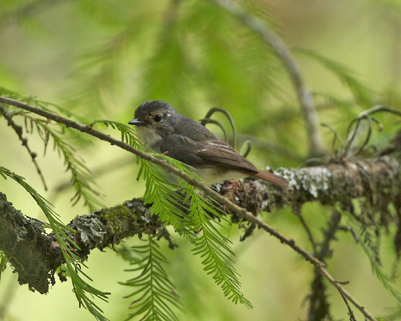 Snowy-browed Flycatcher Ficedula hyperythra Local name, Indonesian: Burung bodoh (not very flattering as bodoh means stupid) 11th. August 2007 Location : Gunong Gede, Java, Indonesia Habitat: Distribution: _Q0S8874